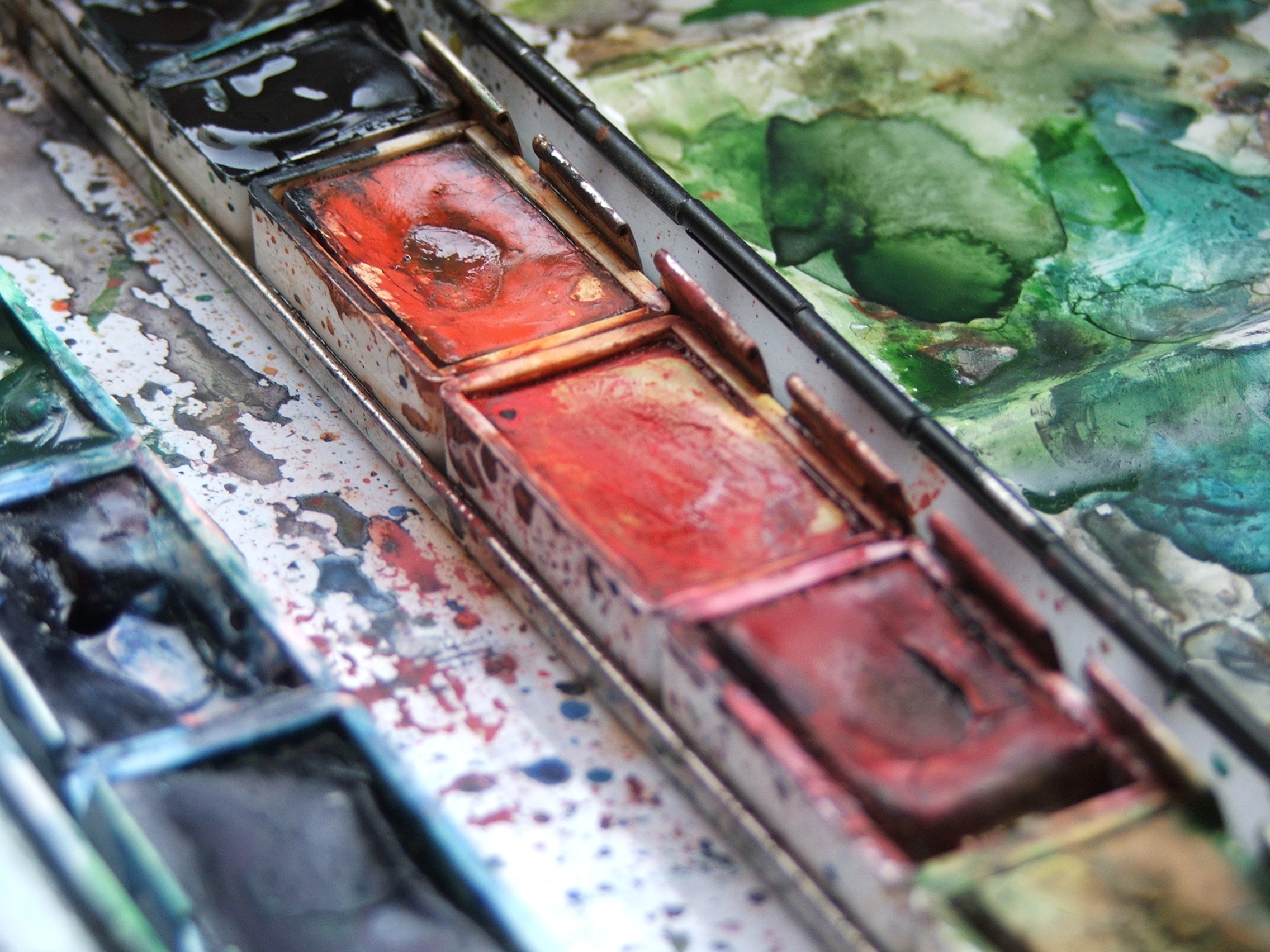 A watercolour painting set.